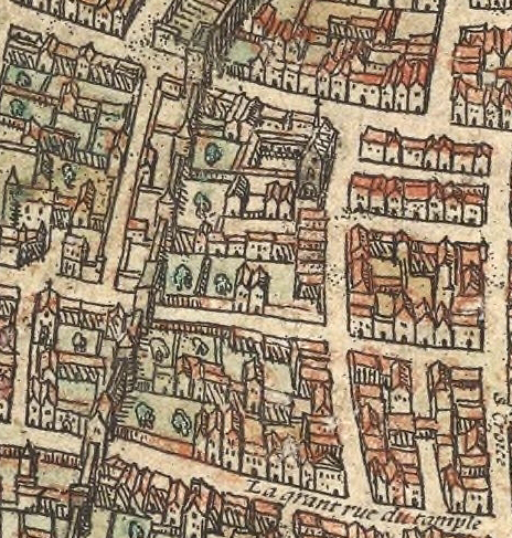 Chaume gate and others on the plan of Braun and Hogenberg (c.1530, published in 1572, edition of 1593).